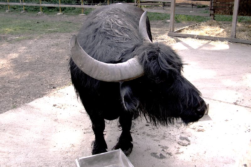 Water buffalo (Bubalus bubalis) in Nyíregyháza Zoo, Hungary.